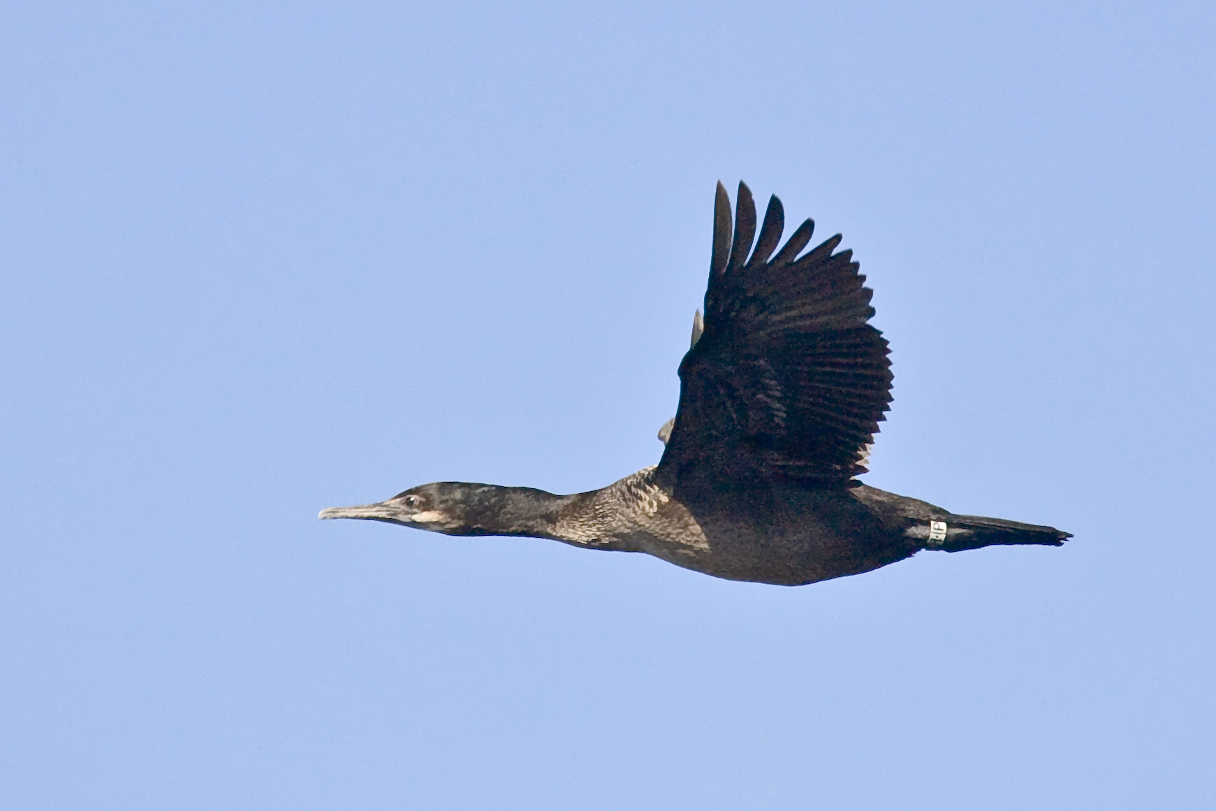 Brandt's Cormorant (Phalacrocorax penicillatus) with tag HP - Pelagic Boat Trip - Leaders: Brian Sullivan, Brad Schram, Tom Edell - Sat. 19 Jan 2008 out of Avila, Port San Luis